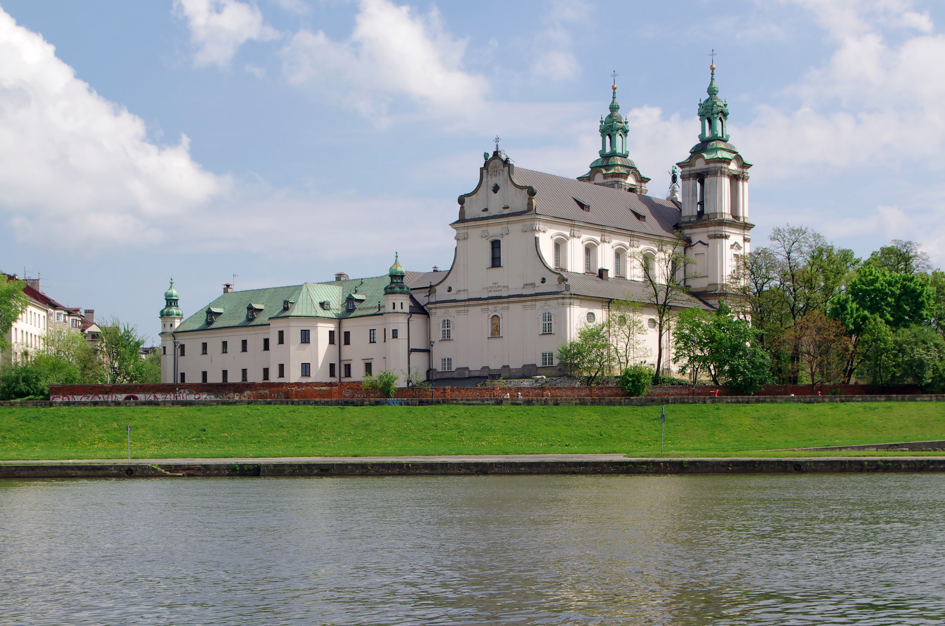 St. Stanislaus church in Kraków